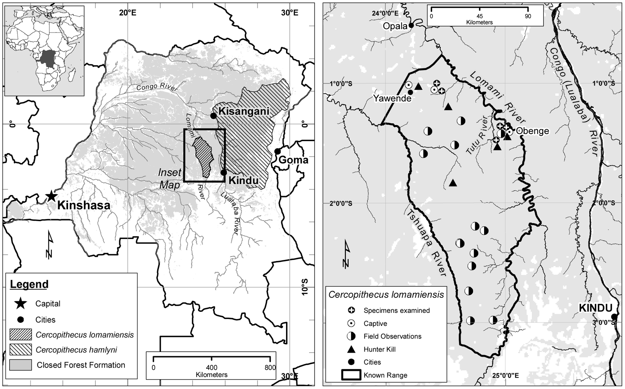 Distribution of Cercopithecus lomamiensis and its sister species, C. hamlyni.